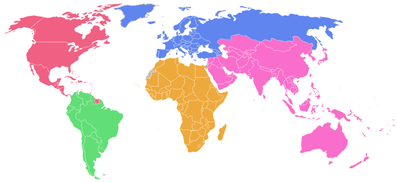 Confederations joined the FIVB